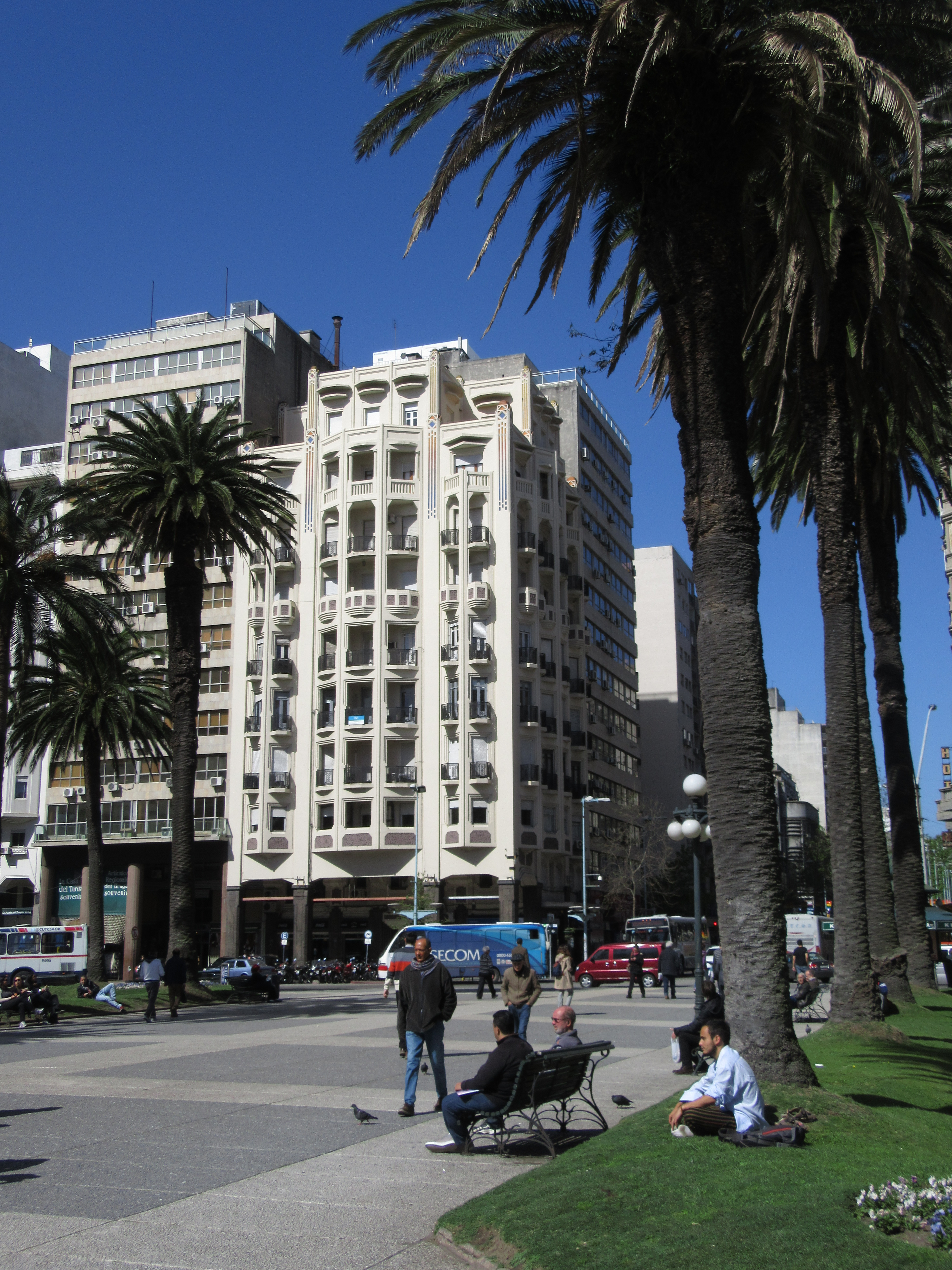 Montevideo